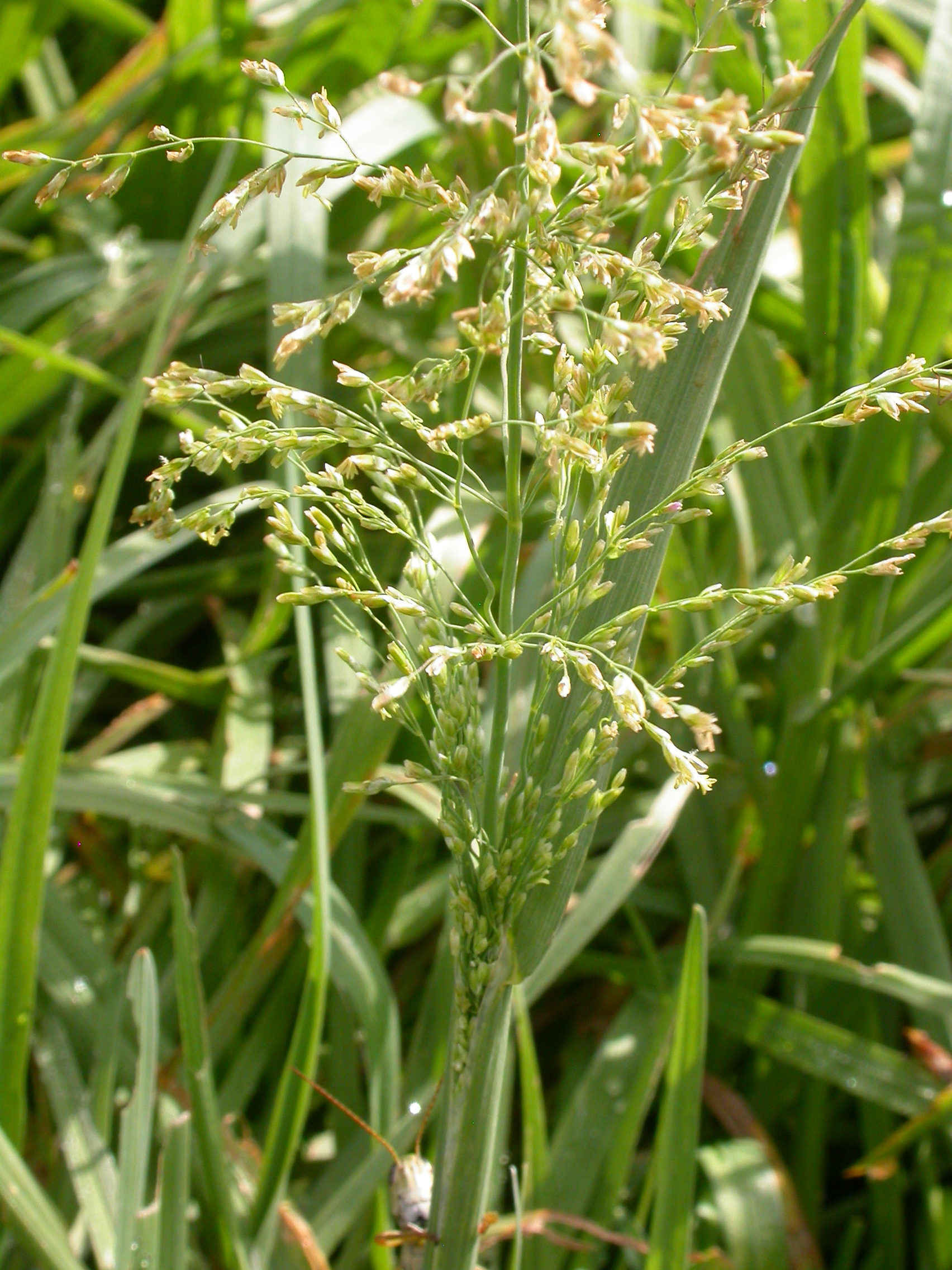 The inflorescences are open panicles that can become very tall and diffuse by late summer and early fall.